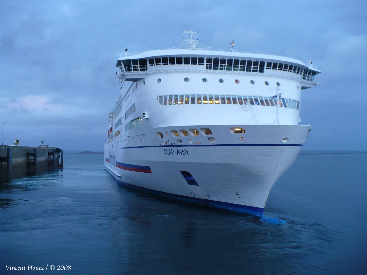 Pont Aven a roscoff